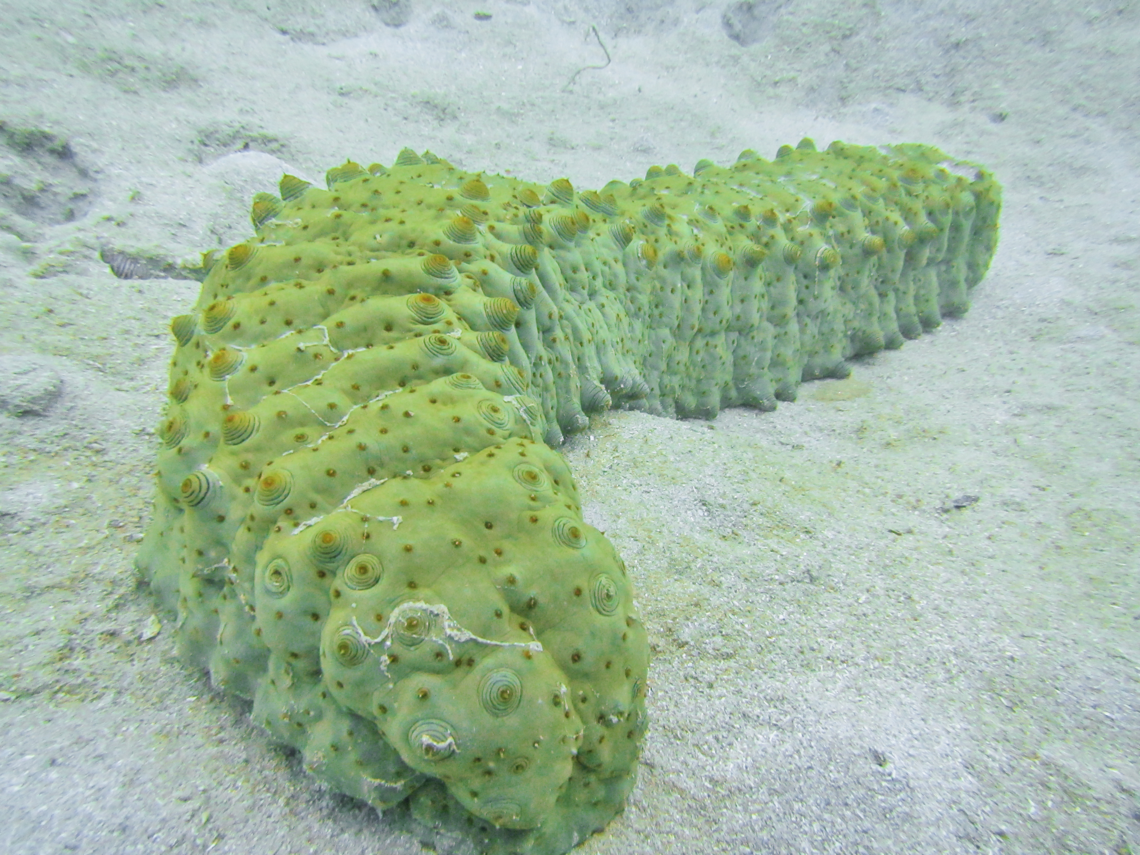 A "curryfish" sea cucumber (Stichopus herrmanni) seen in Mayotte lagoon.